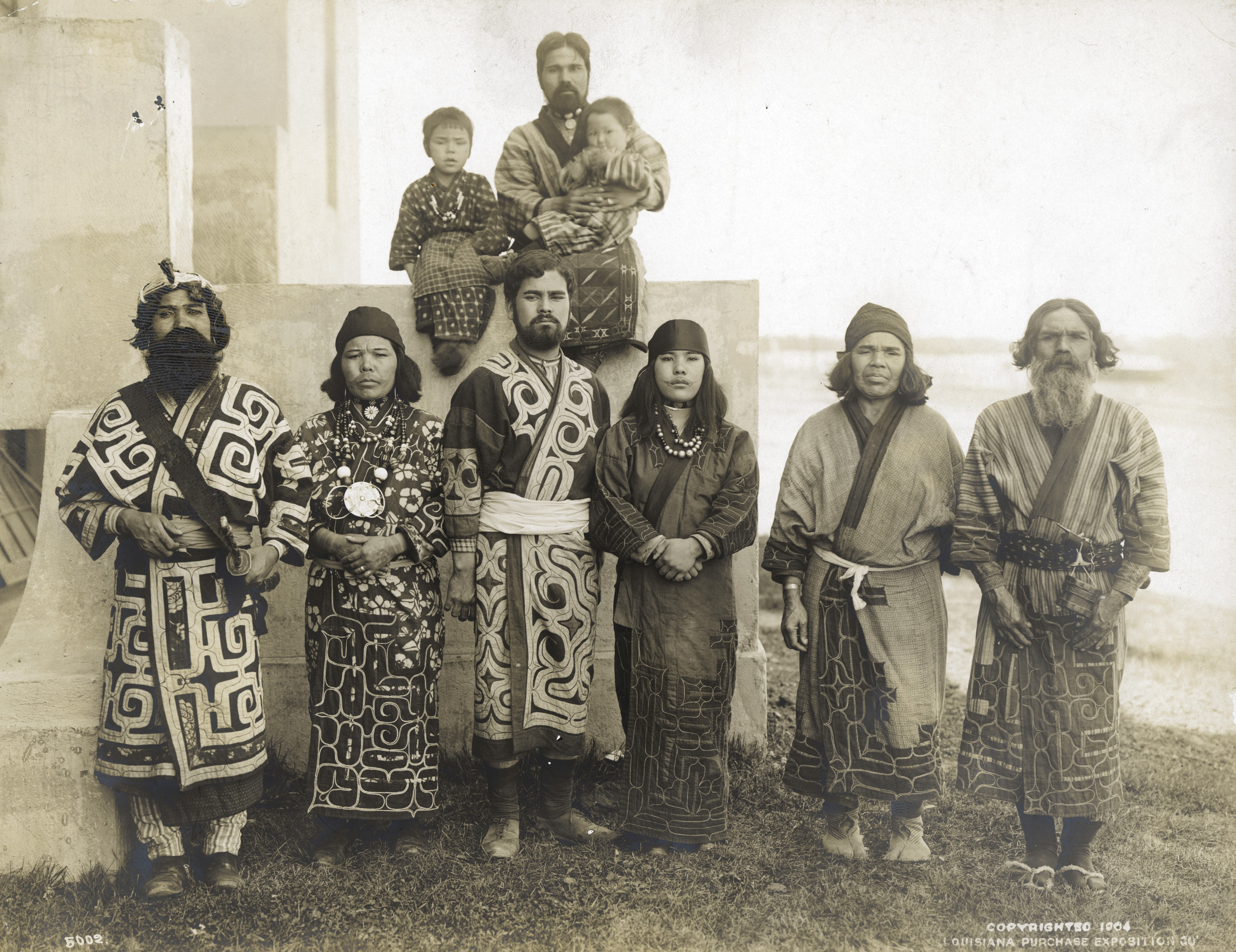 Title: Japanese Ainu group of four men and two women (standing) with seated young boy and man holding a baby in the Department of Anthropology exhibit at the 1904 World's Fair.